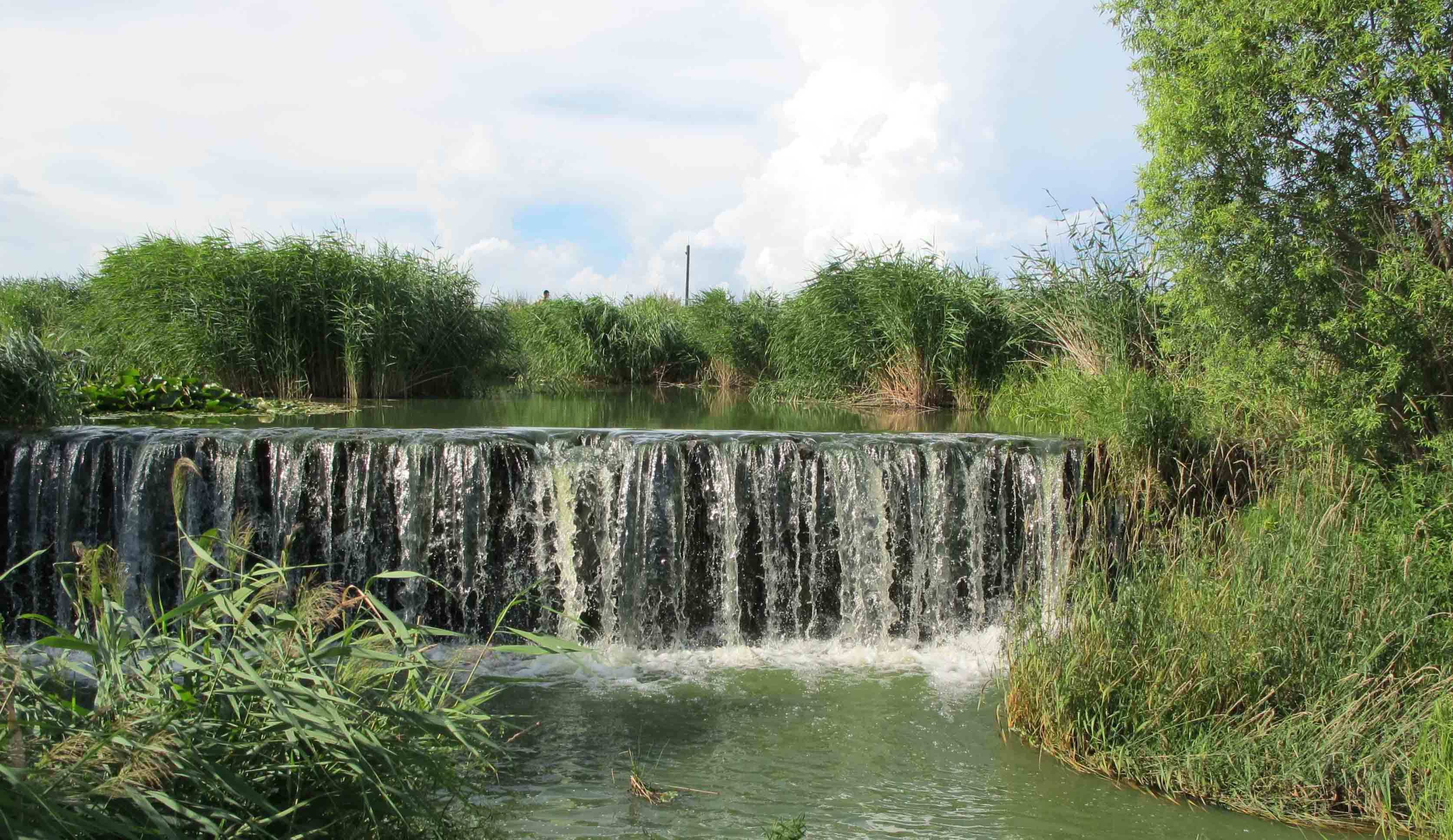 Wudalianchi Volcanic Landforms National Geopark,Heilongjiang,China,by UNESCO in 2004.